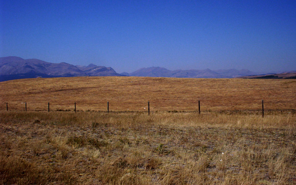 Rangeland on the Blackfeet Indian Reservation looking into Glacier National Park. Mountains slightly obscured by 2003 forest fires.